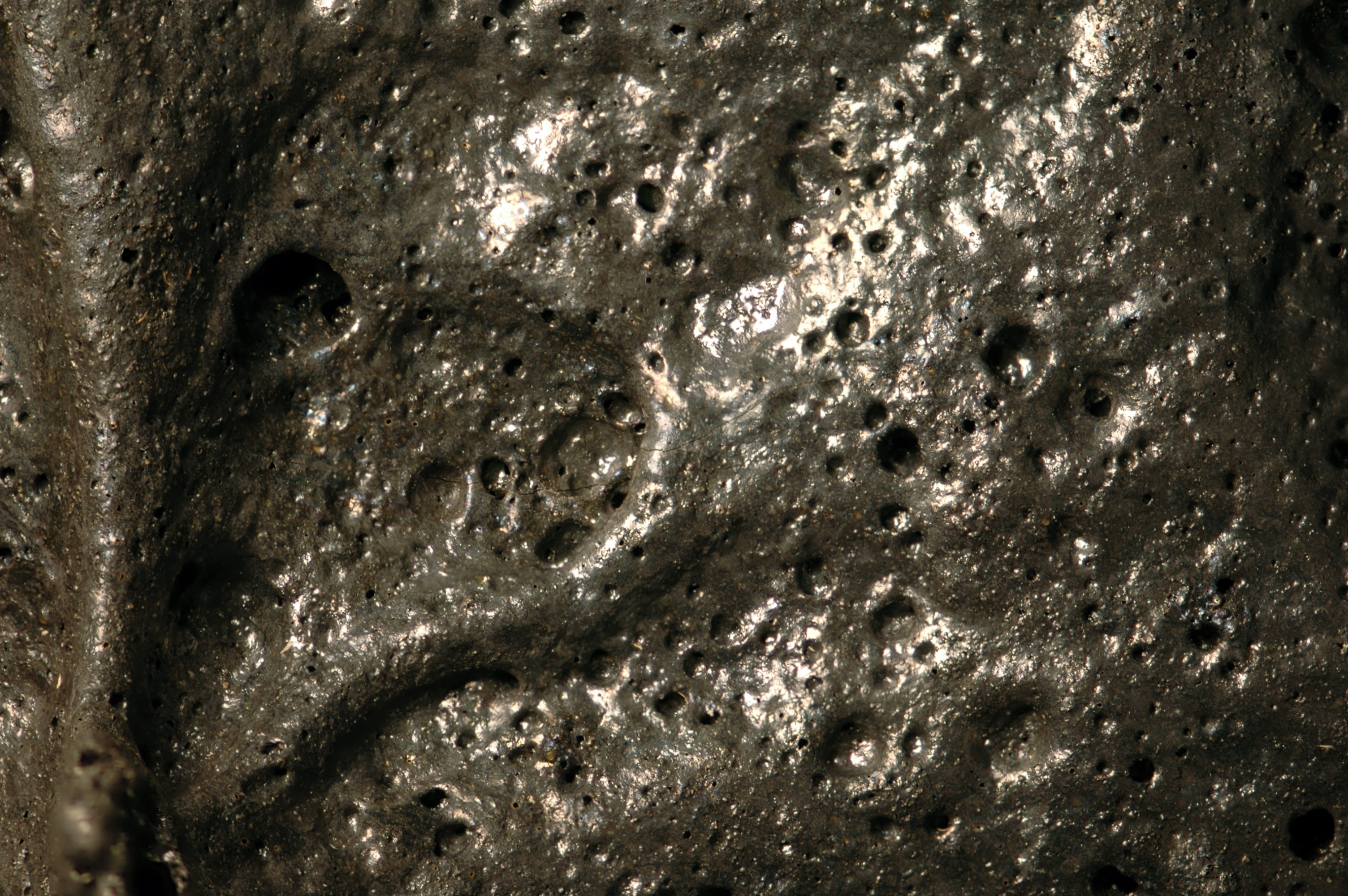 Tachylite from the interior surface of the roof of a lava tube of Mauna Ulu lava field at Kilauea volcano in Hawaii, USA. Tachylite is basaltic glass, formed by partial remelting of the roof of a lava tube. This sample was formed during volcanic activity that occurred between 1969 and 1974 at the East Rift Zone of Kilauea. This view is about 86 millimetres across.